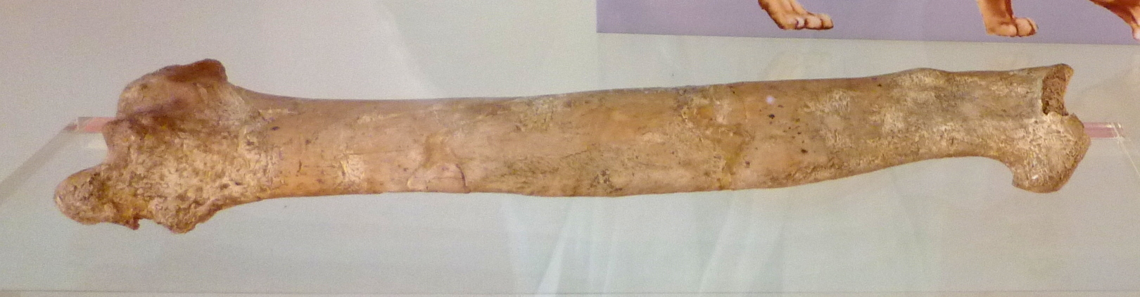 Panthera leo cf. fossilis radius in the permanent exhibition next to the in situ paleontological museum of Ambrona (Soria, Spain)